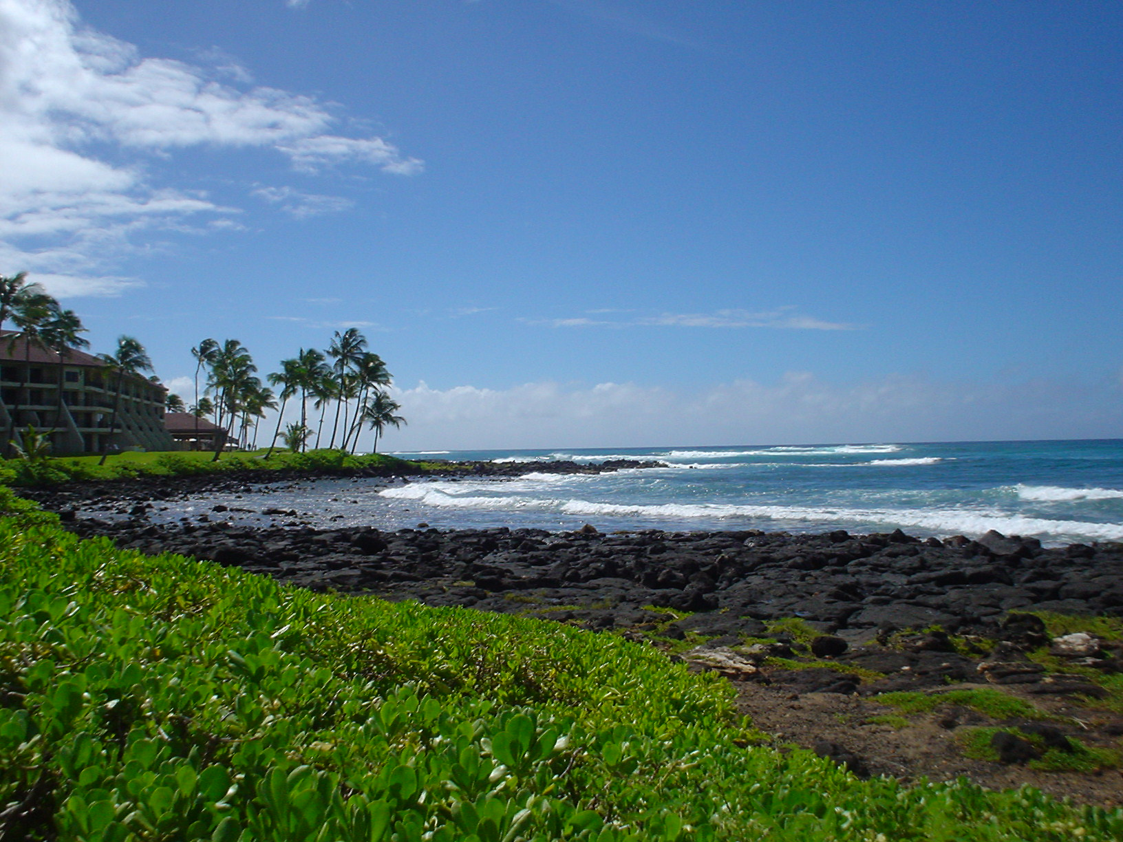 Image of Poipu Beach on the South Shore of Kauai.